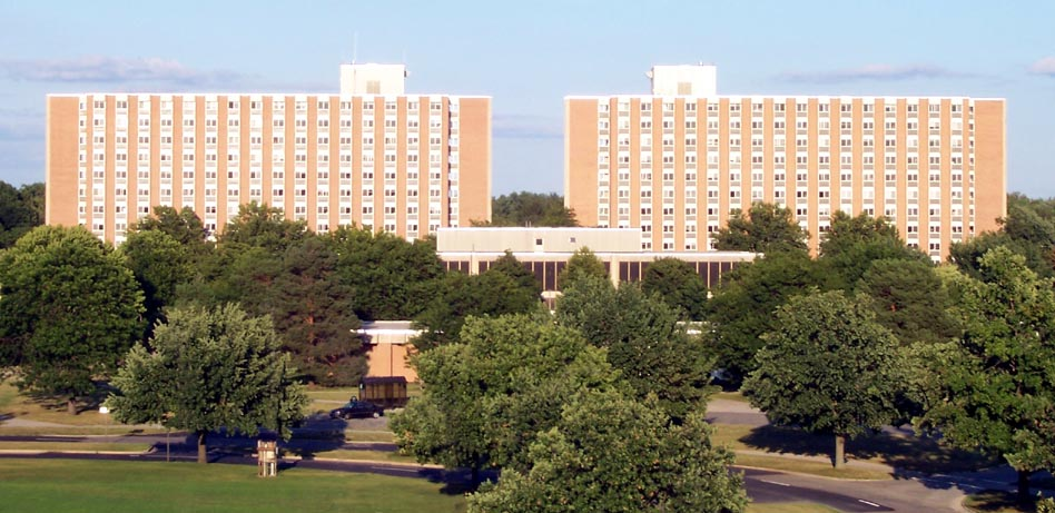 Hubbard Hall is a twelve-story residence hall on the eastern edge of Michigan State University's campus. It is the university's second tallest building behind Spartan Stadium.